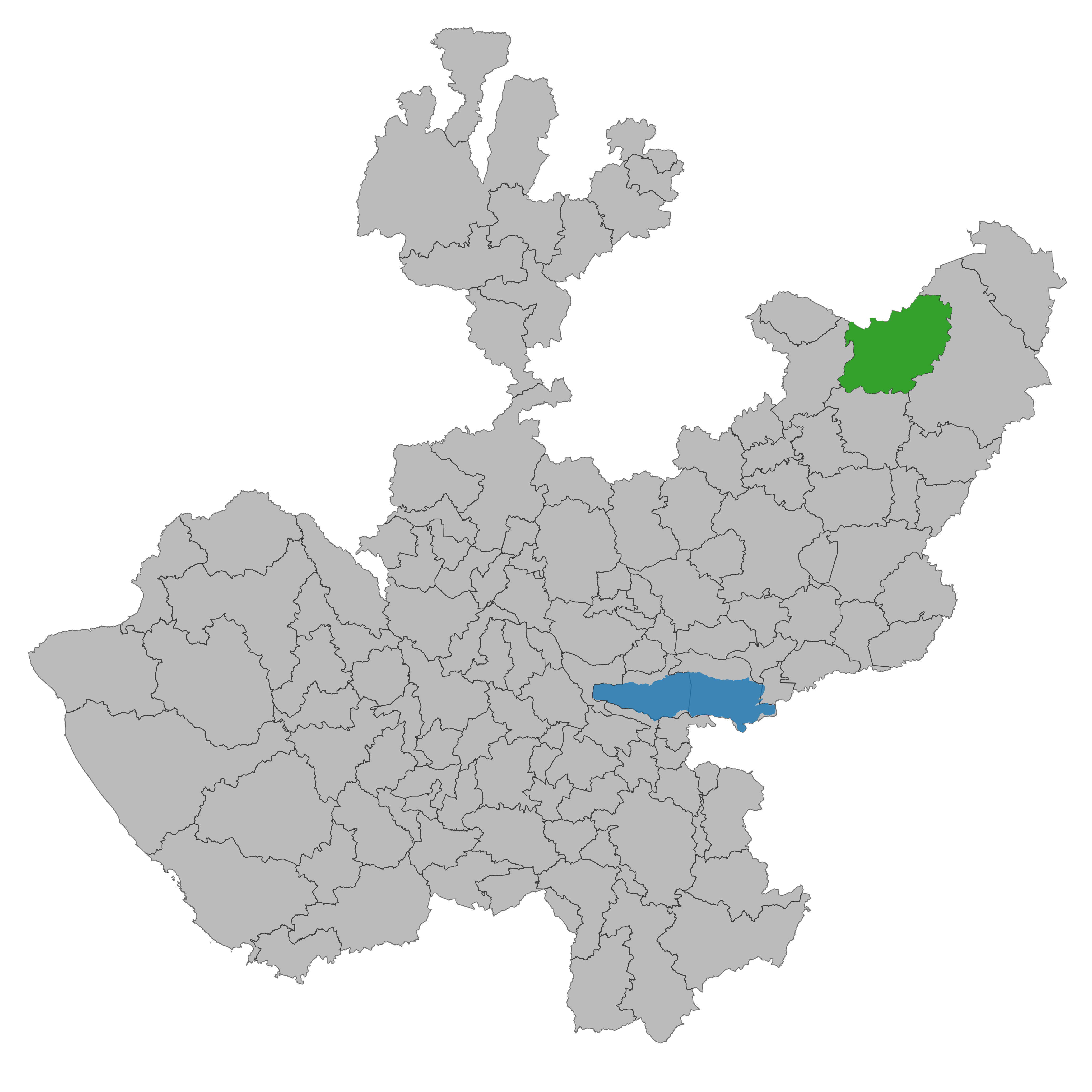 Municipality of Jalisco. Prepared with the software QGIS version 2.8.2 Wien & with information of SCINCE 2010 version 05/2013